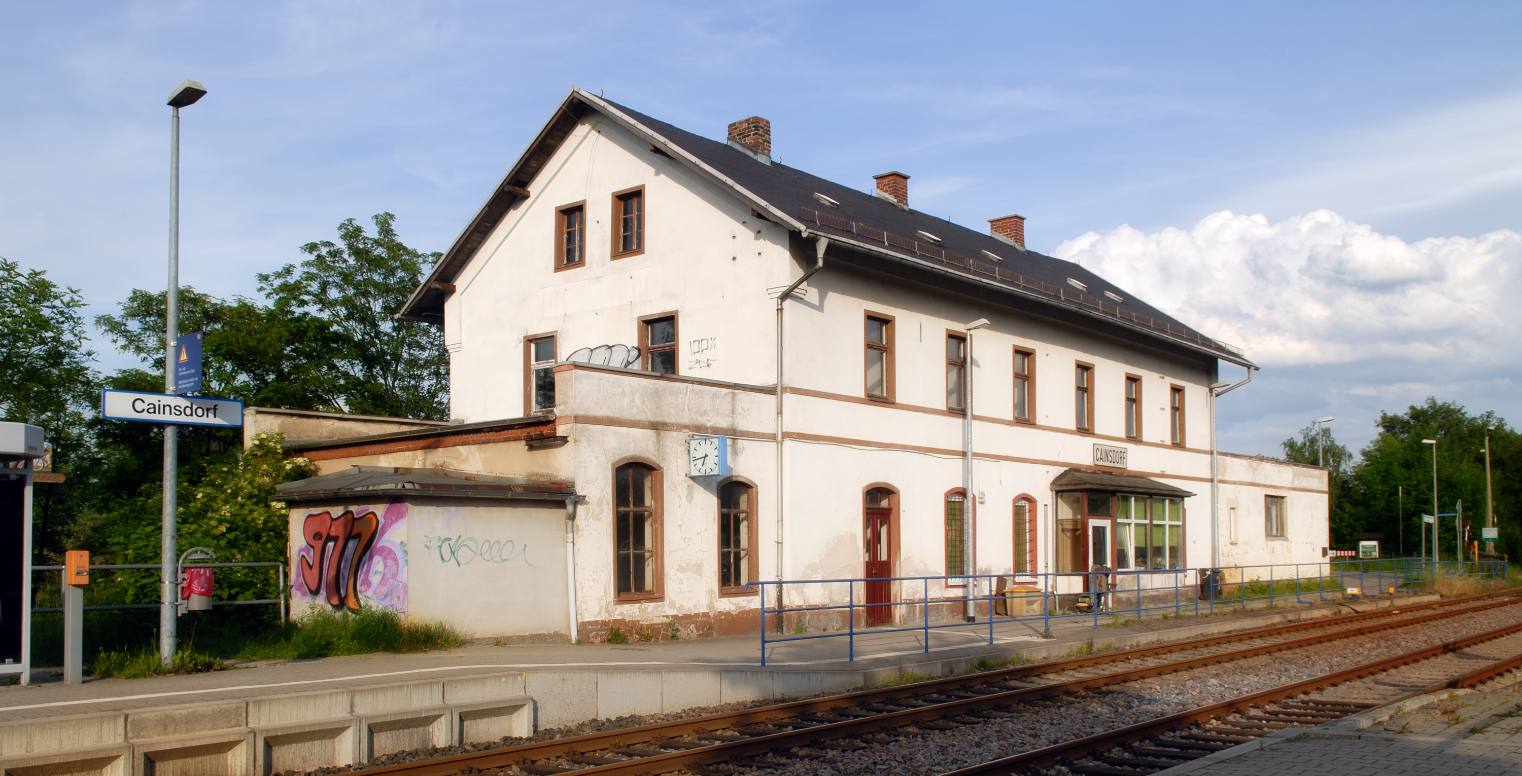 This image shows the train station in Zwickau Cainsdorf.